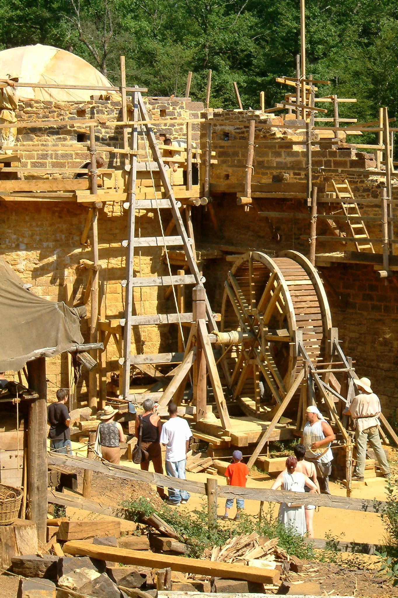 Guedelon Castle, Yonne, Bourgundy, FRANCE